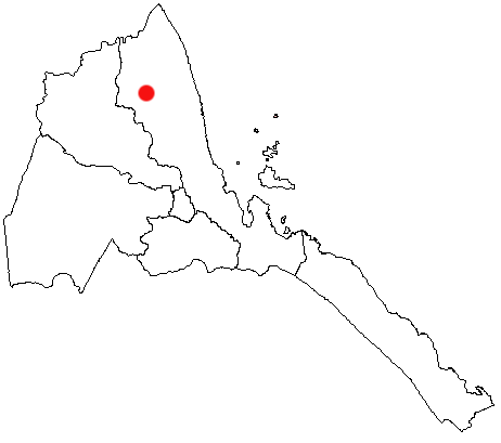 Nakfa, Eritrea Location Map; created with the GIMP. Made by Acntx.